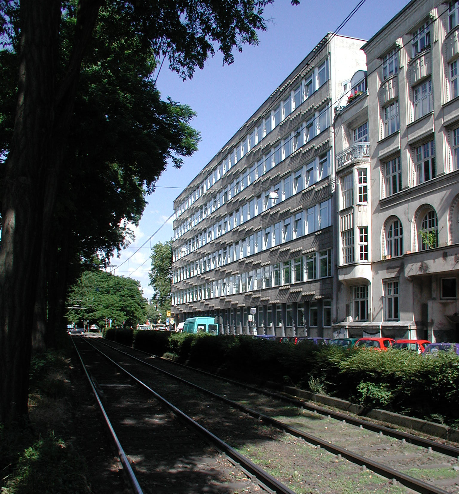 Cologne, advanced technical college, Ubierring